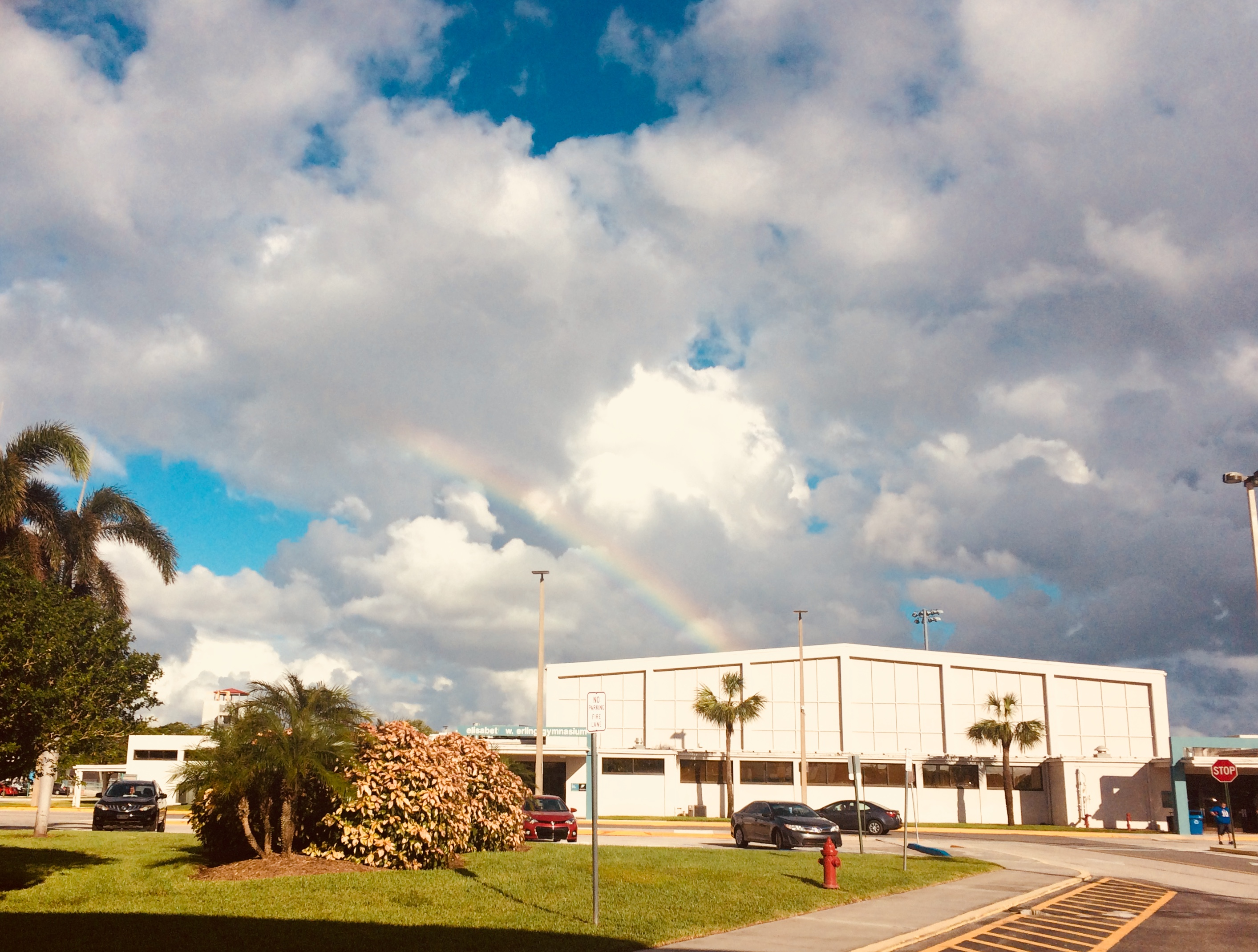 Shot of a rainbow, with clouds in the background